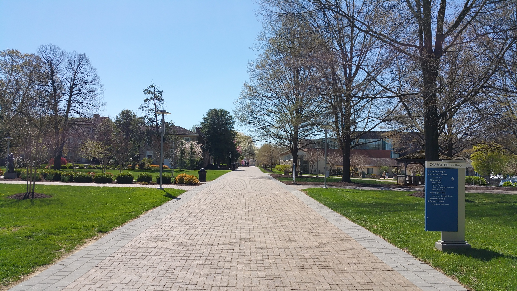 Van Meter Road on Goucher College's campus